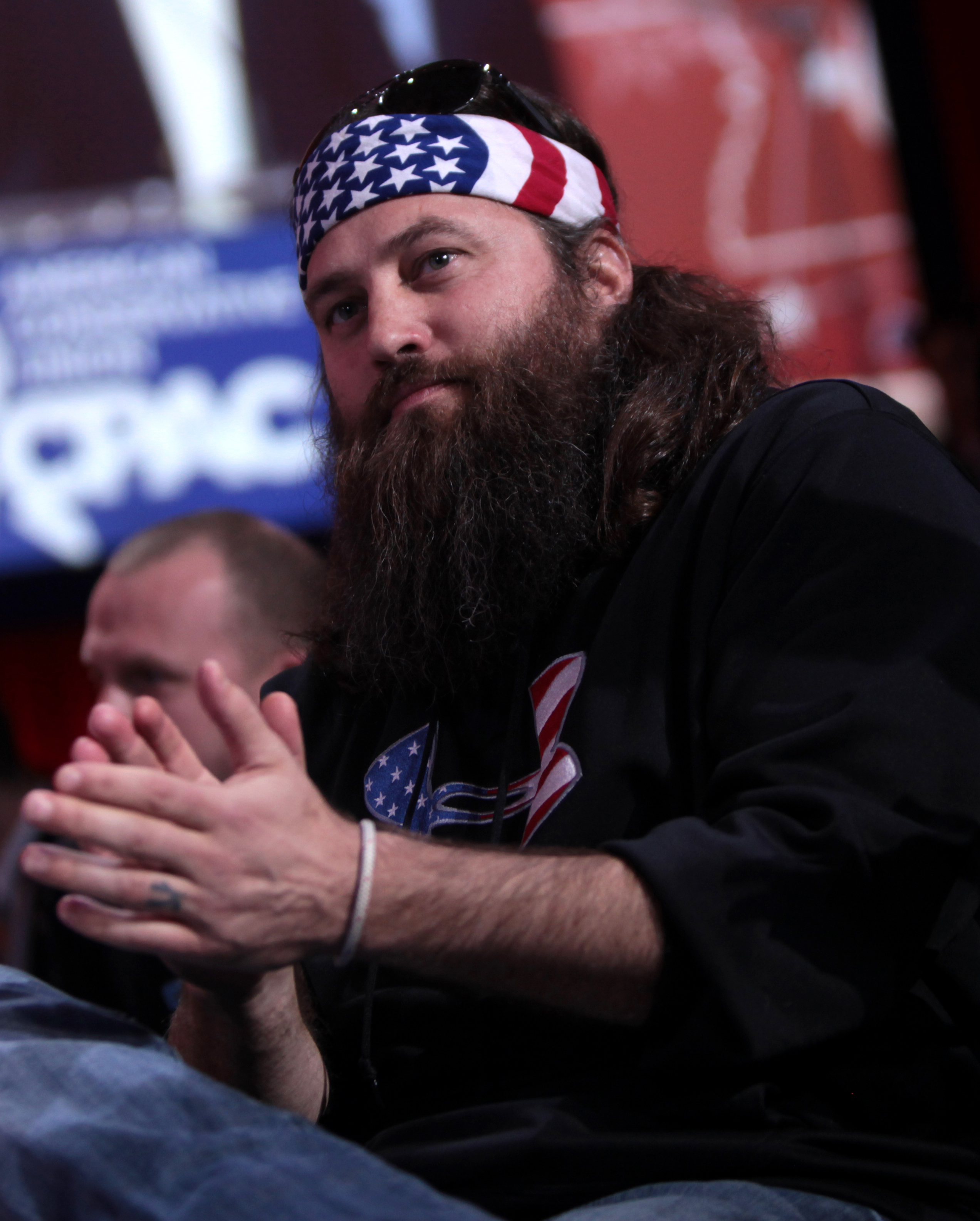 Willie Robertson speaking at CPAC 2015 in Washington, DC.